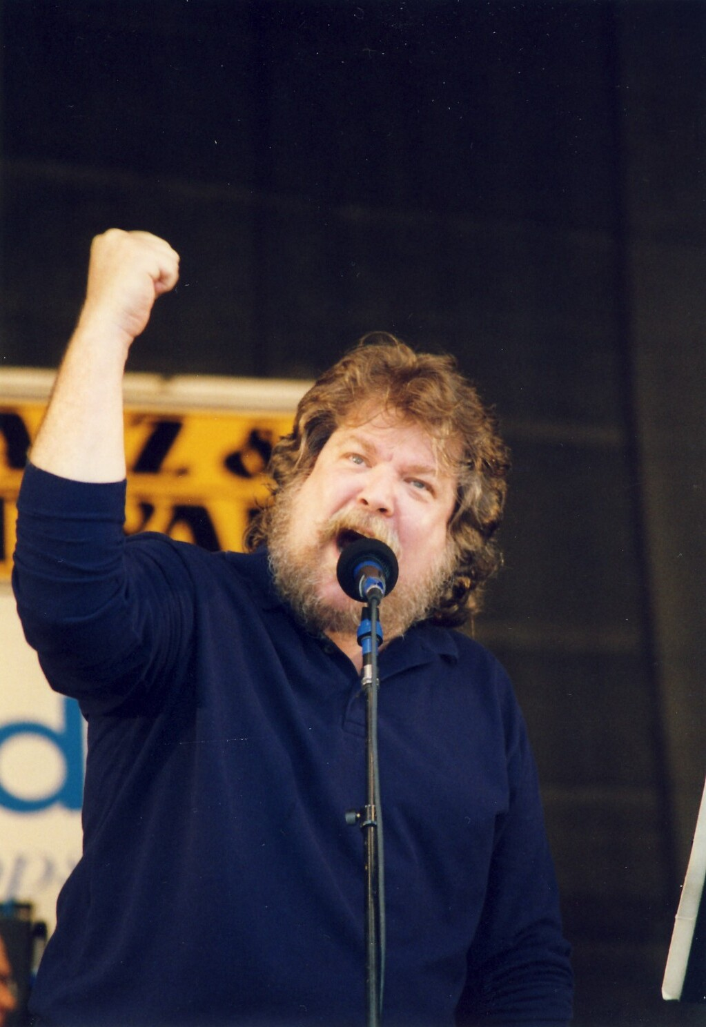 Luther Kent at the New Orleans Jazz & Heritage Festival appearing with his band Trick Bag.